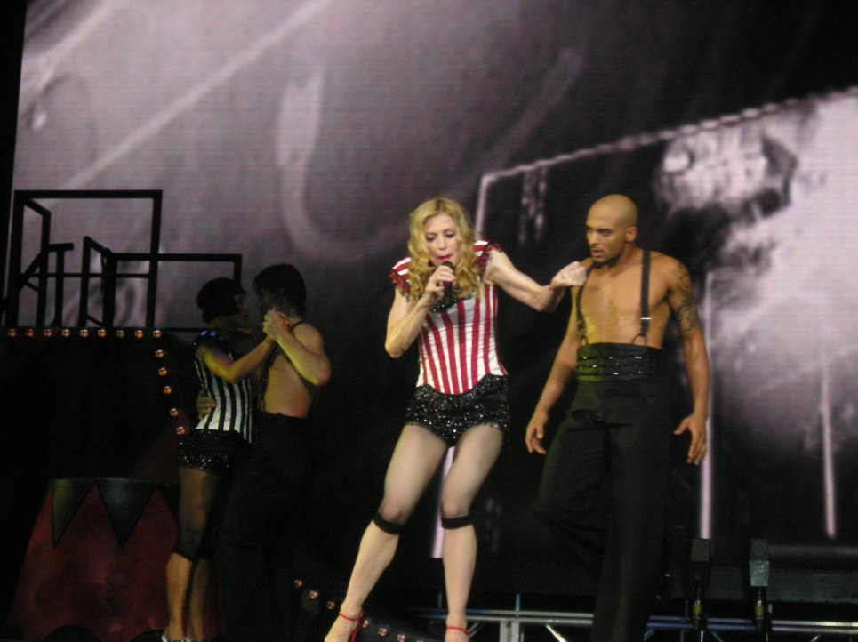 Picture taken at the concert in Manchester